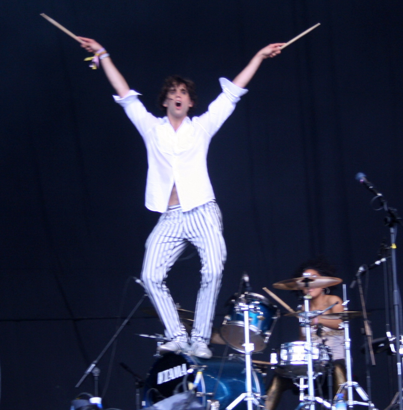 Struts his stuff on top of the drum kit all night long!